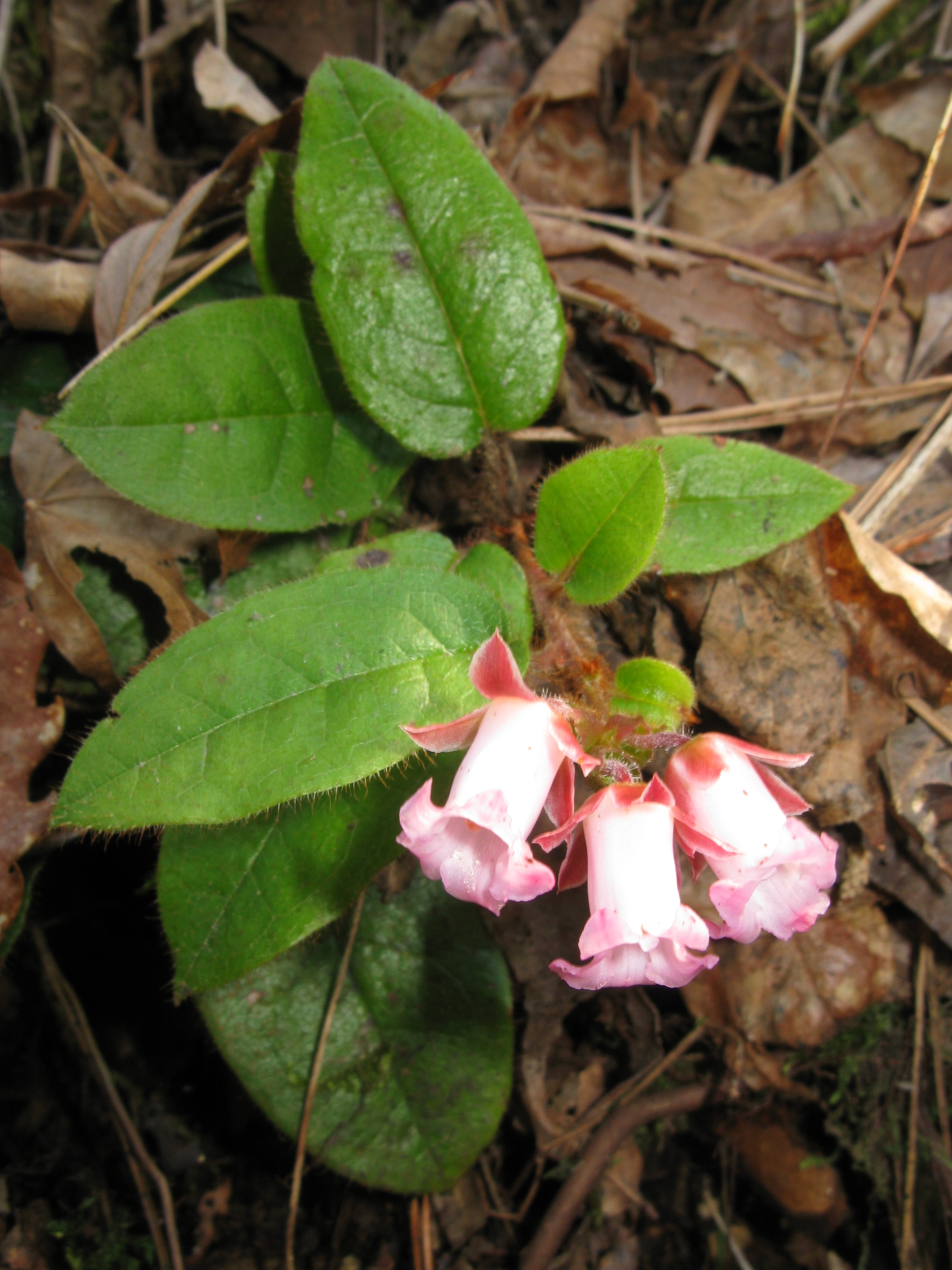 Epigaea asiatica, Aizu area, Fukushima pref., Japan